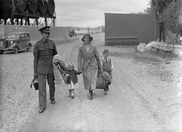 This is British Army Lance-Corporal E.J. Thomas and his family leaving Cobh. The family presumably returned to England. On Monday, 11 July 1938, the Irish army took over from the last of the British Garrison at Spike Island in Cork Harbour. As the Irish Independent reported, it had been 17 years since the Truce of 1921 when the British flag was lowered on Spike Island, and Irish sentries mounted duty for the first time. Date: 10 July 1938 NLI Ref.: IND_H_3281